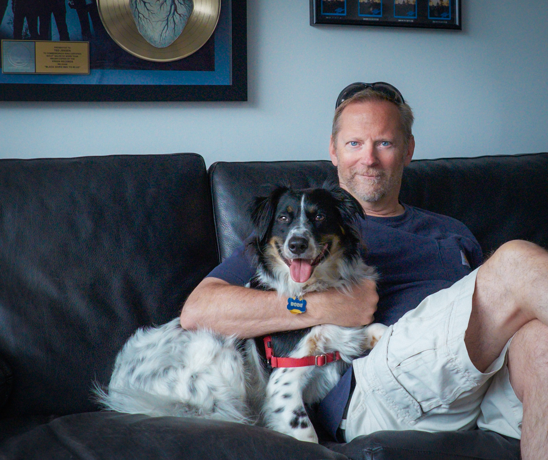 Jensen in his lounge at Sterling Sound with his dog, Bode